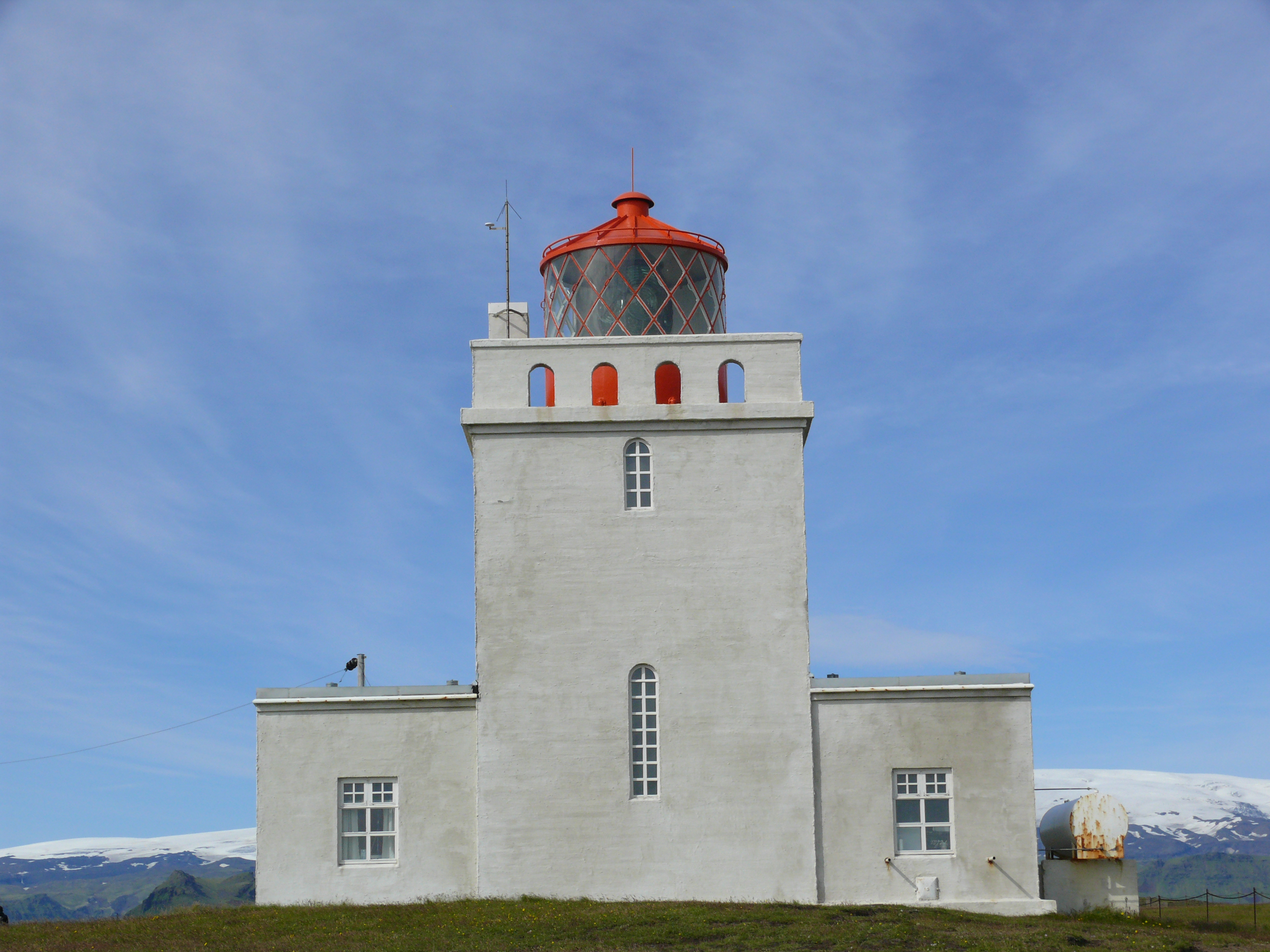 Dyrhólaey lighthouse is a beautiful lighthouse on the southern coast of Iceland. In the background of the photo, you can see the glaciers cascading down from the top of the mountains.